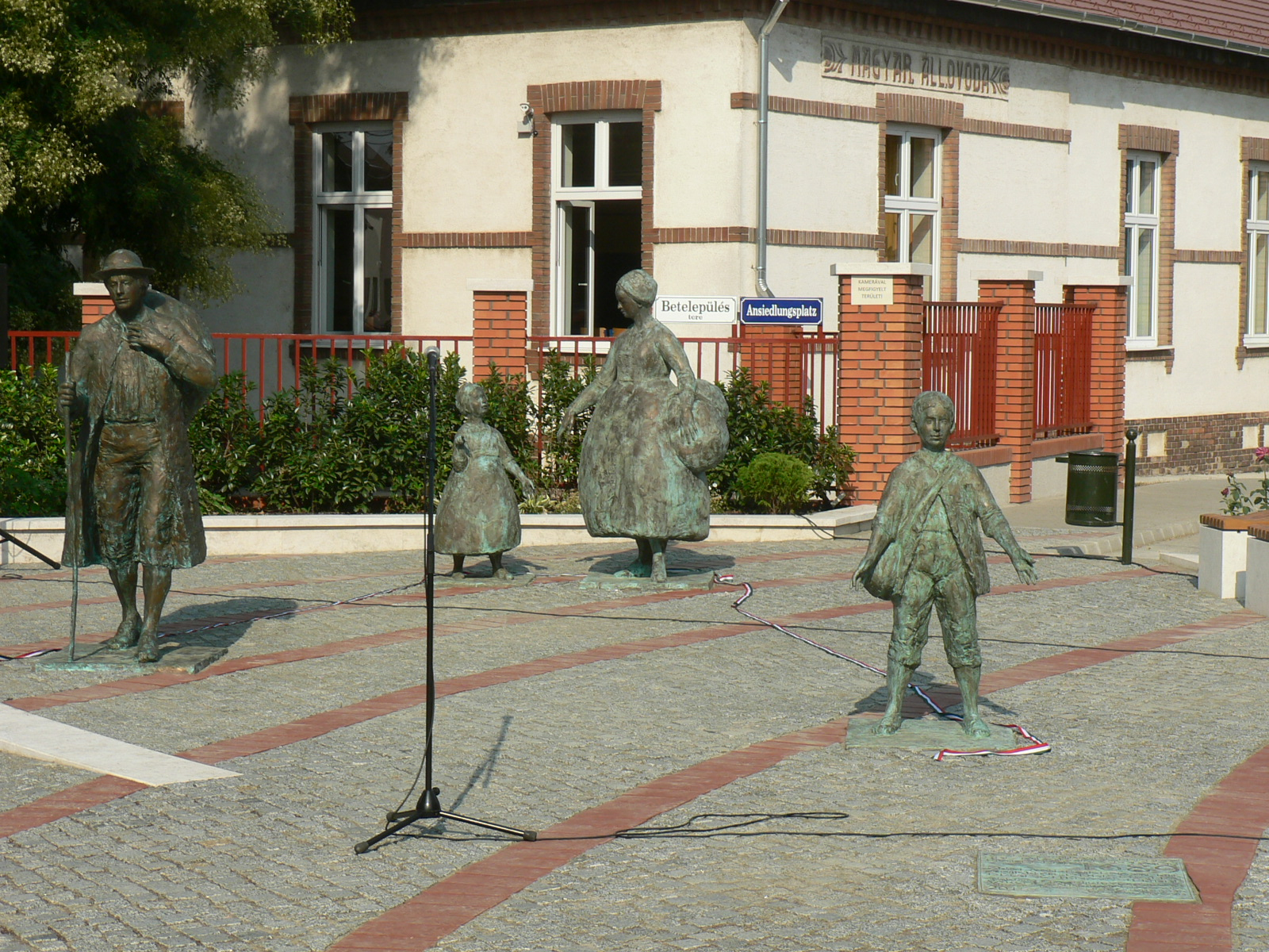 Vörösvár betelepülési emlékmű avatás után